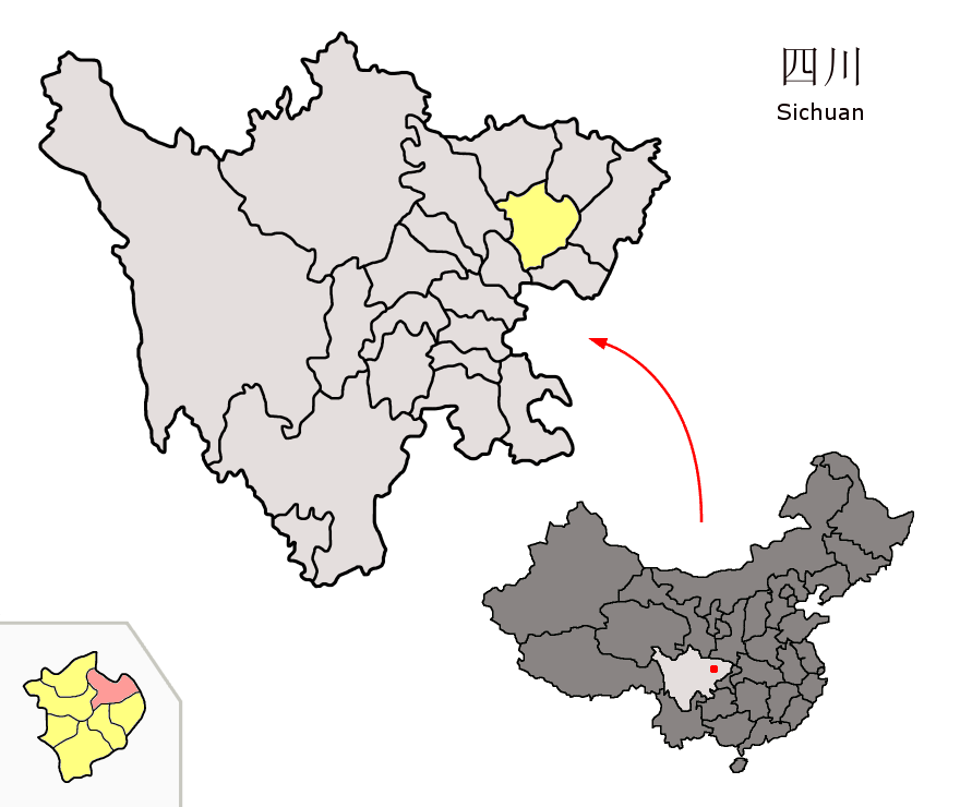 Location of Yilong County (pink) and Nanchong Prefecture (yellow) within Sichuan province of China Map drawn in october 2007 using various sources, mainly : Sichuan province administrative regions GIS data: 1:1M, County level, 1990 Sichuan Counties map from